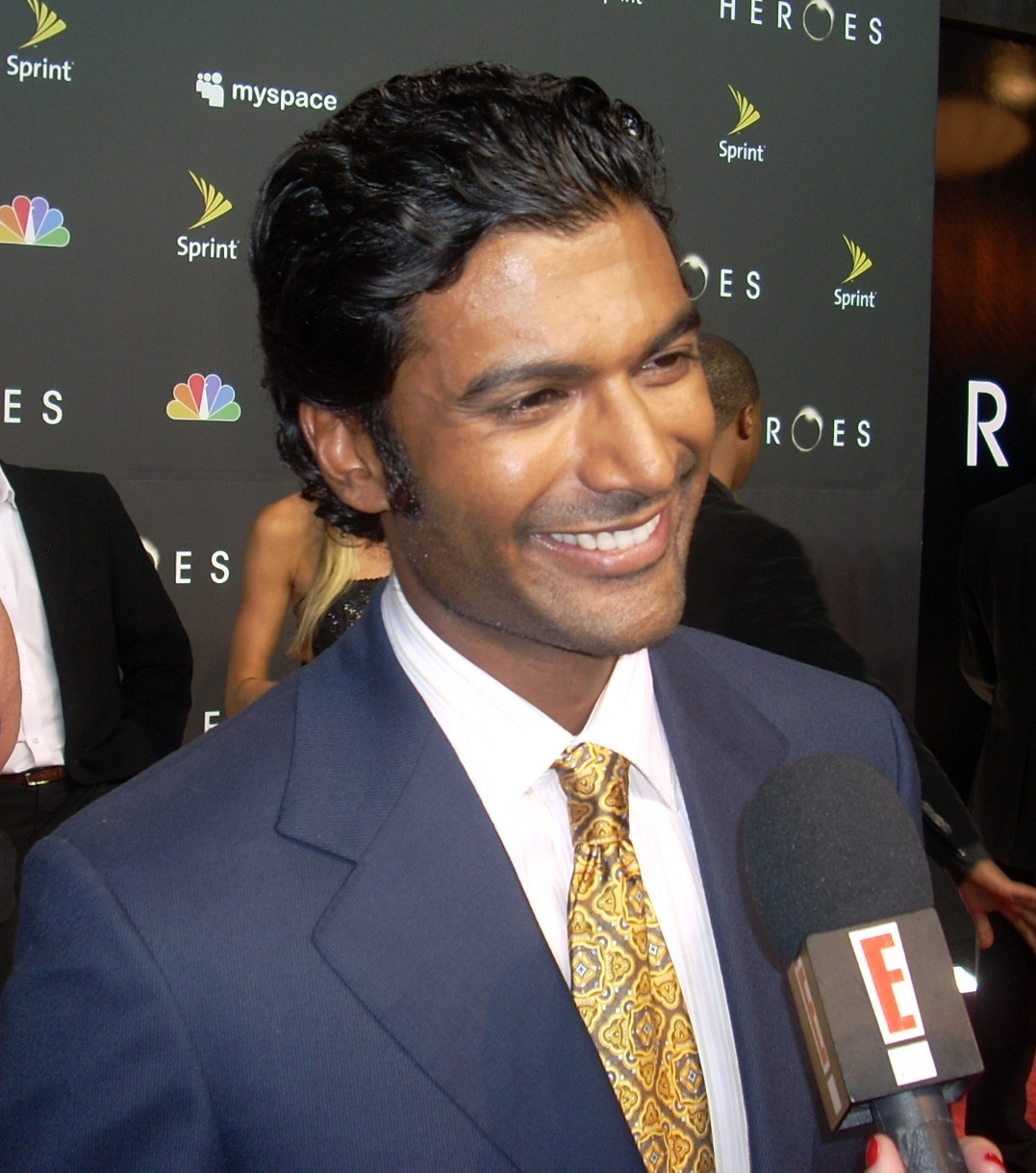 "Heroes" Season Three Premiere Party, Edison L.A., Downtown Los Angeles - Sept. 7, 2008